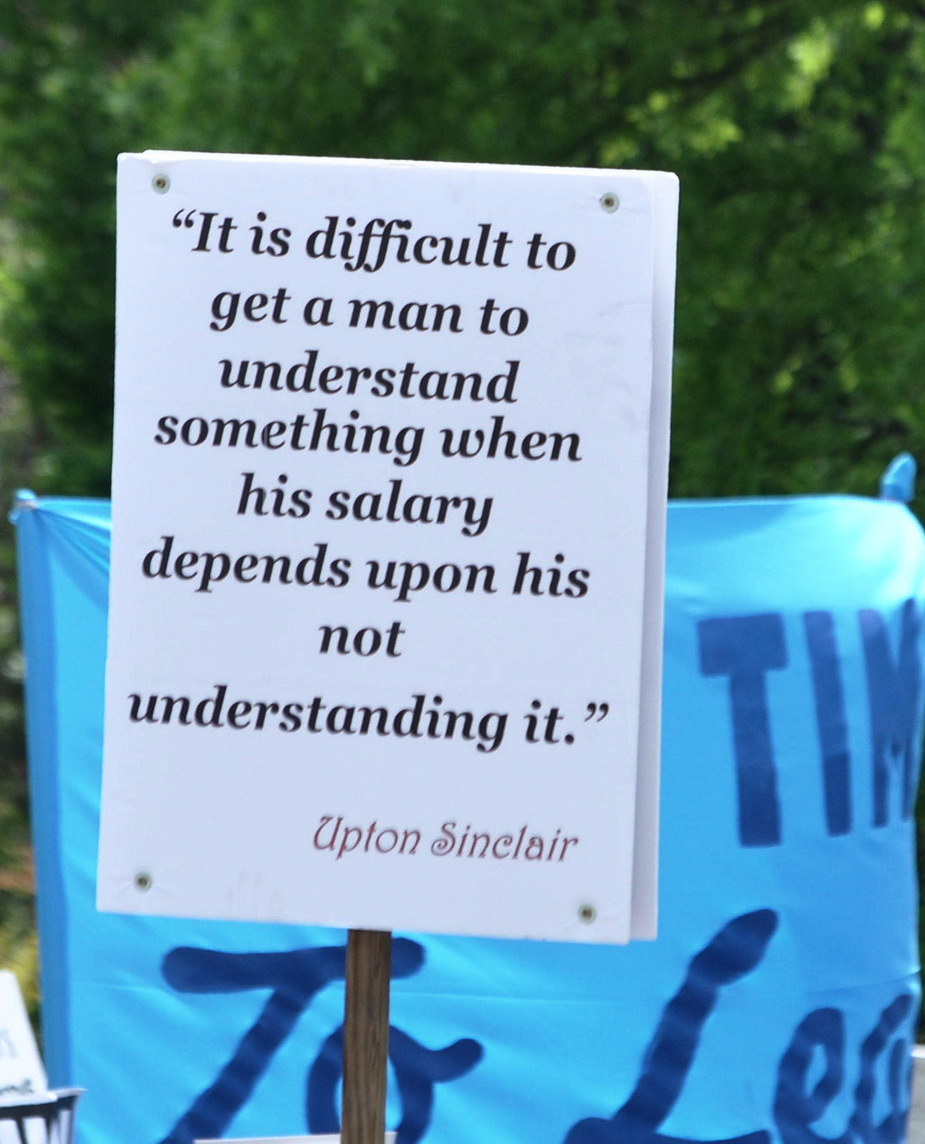 Climate March 0858 signs